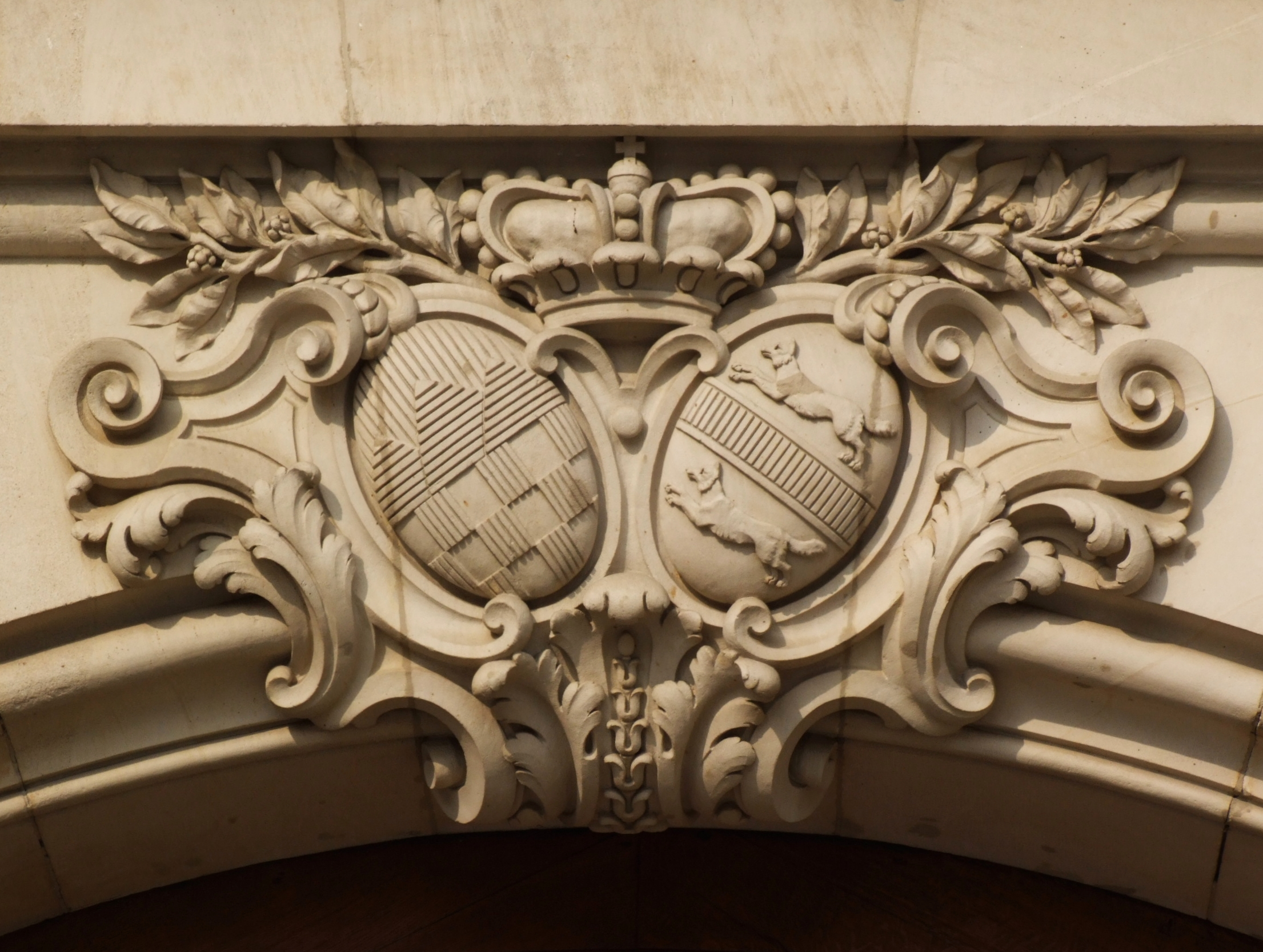 Coat of arms of von Hochberg family in Pszczyna (Pless), Upper Silesia Ślůnski: Wapyn familije von Hochberg we Pszczyńe, na Gůrnym Ślůnsku